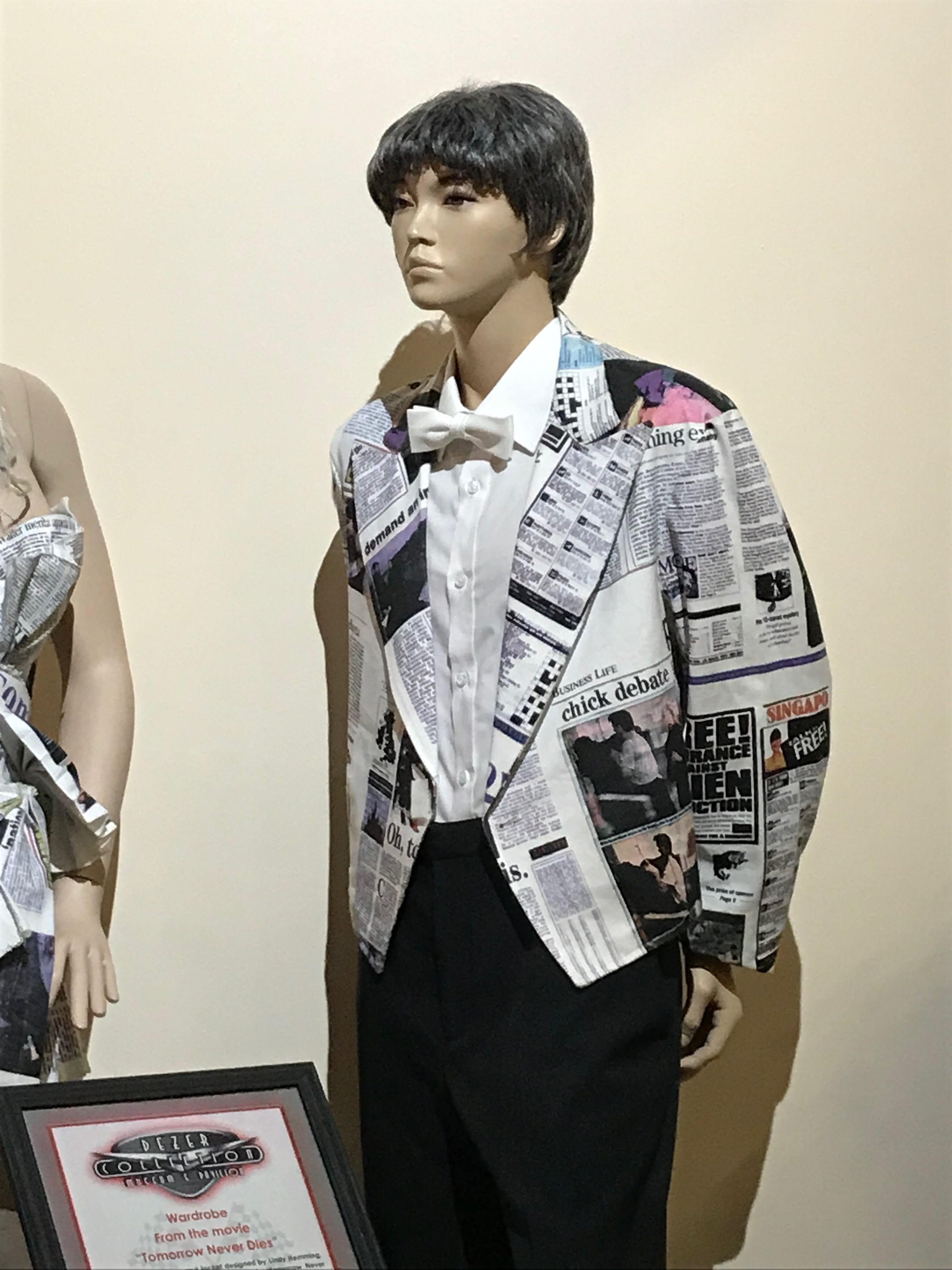 Wardrobe from the movie Tomorrow Never Dies currently on display in the Dezer Collection in Miami.